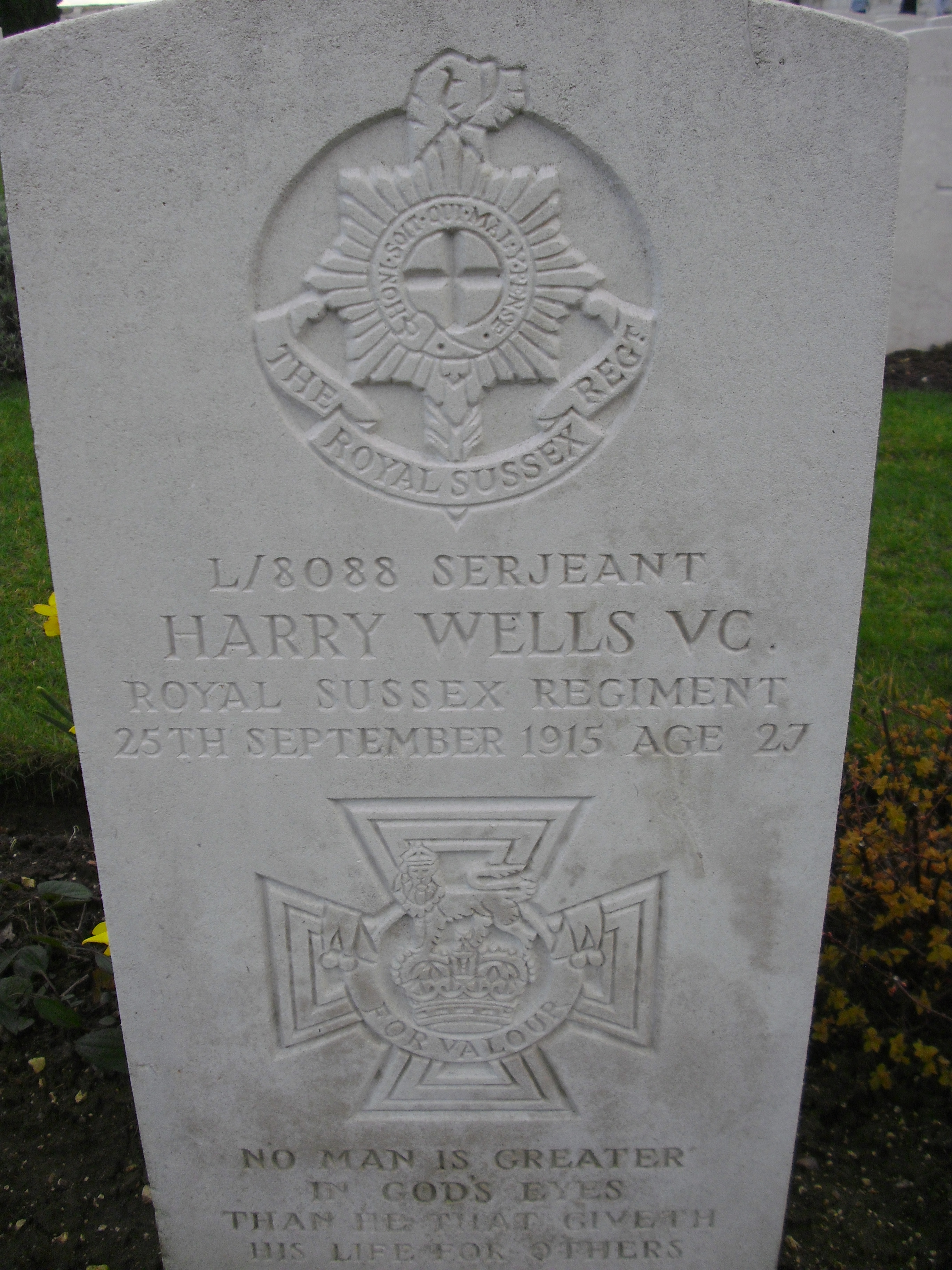 Commonwealth Graves Commision Headstone for Harry Wells VC